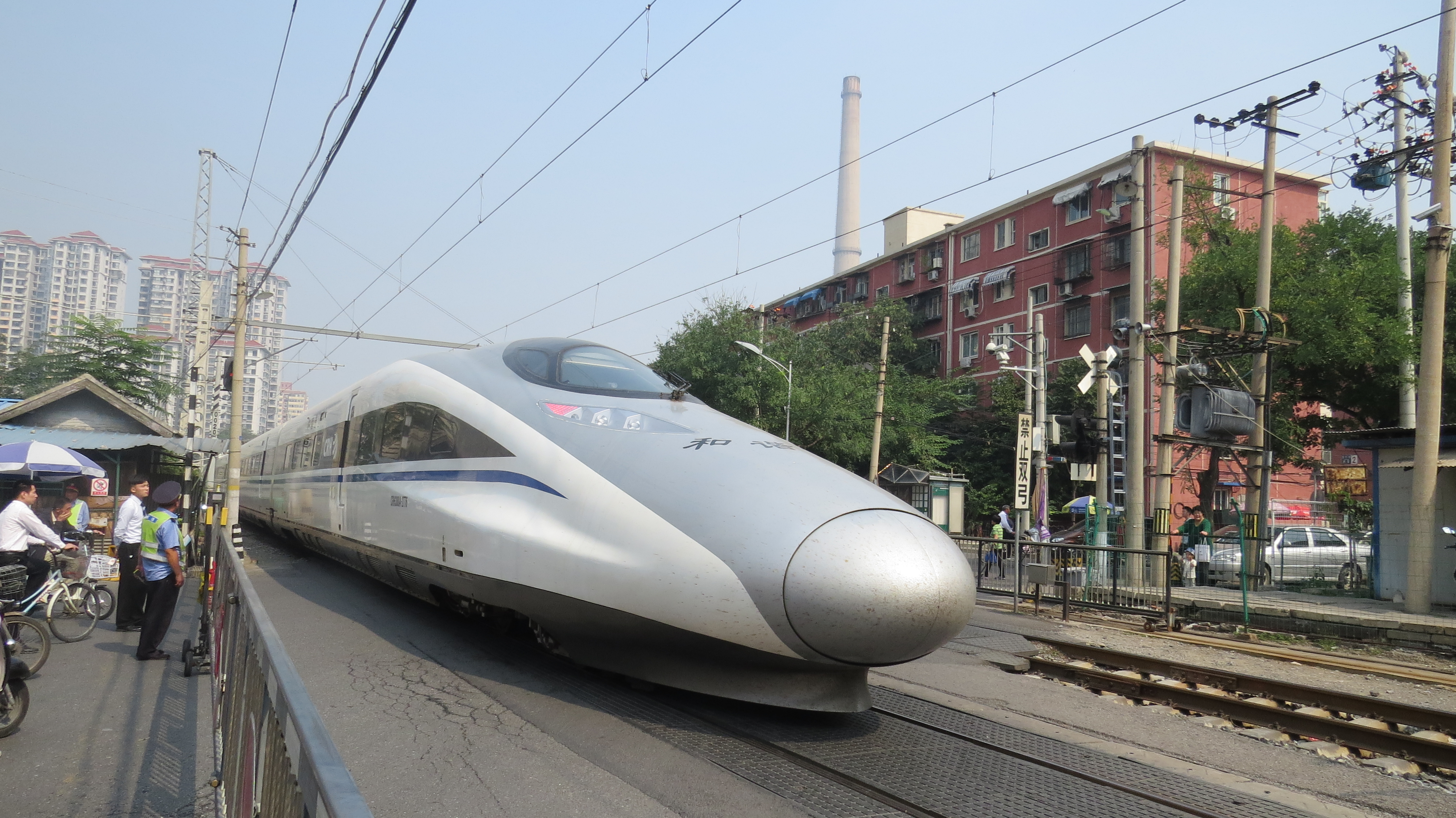 But this isn't enough, and there came...